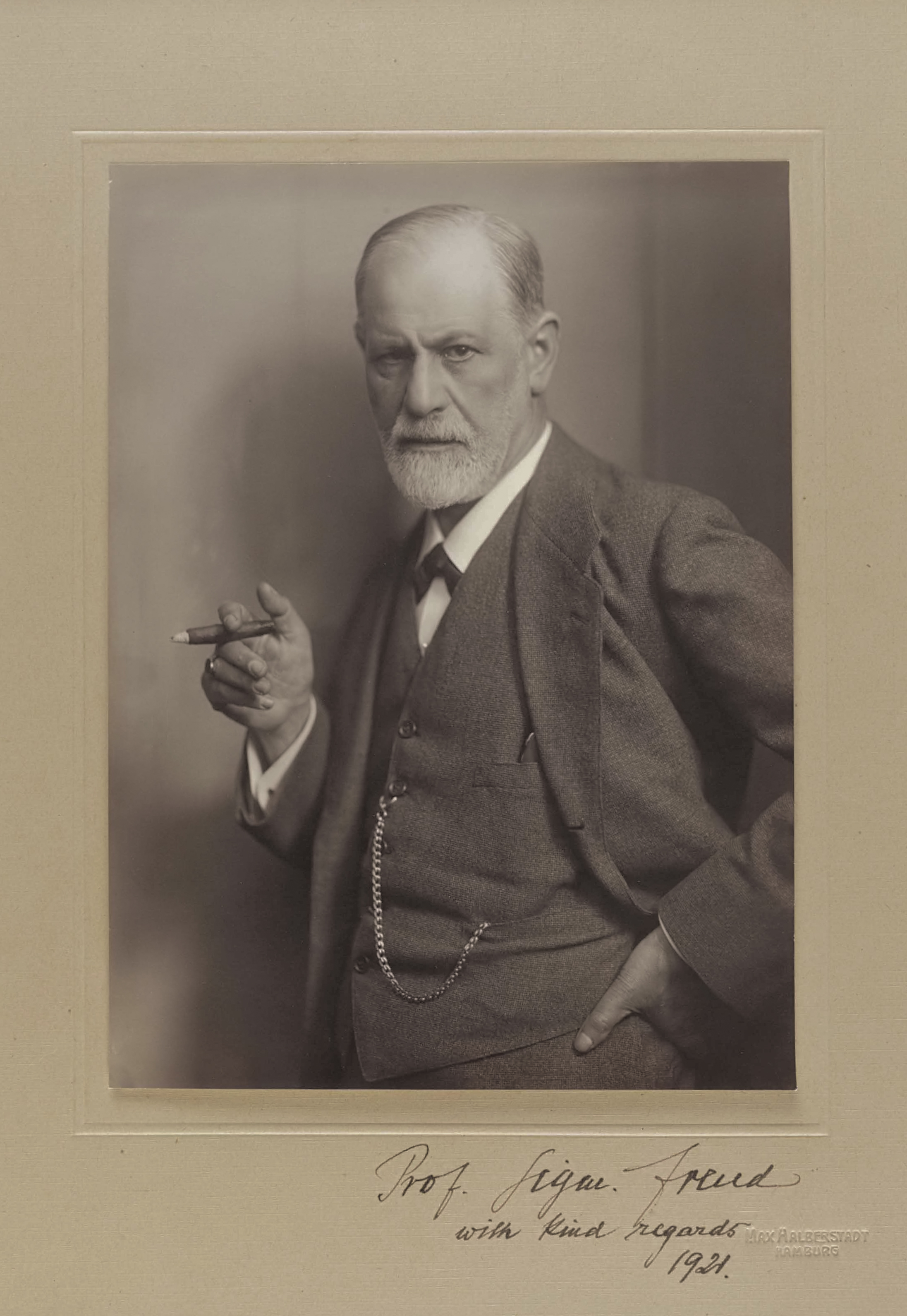 Photographic portrait of Sigmund Freud, signed by the sitter ("Prof. Sigmund Freud")